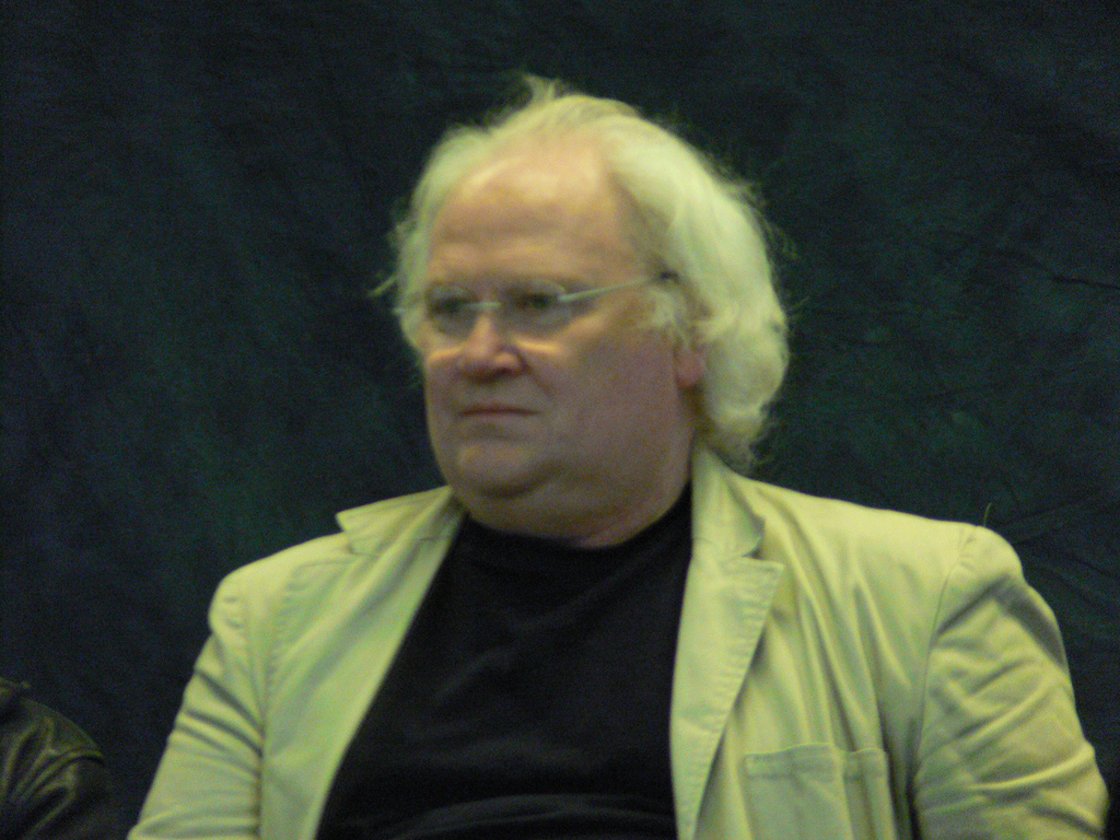 English actor Colin Baker.